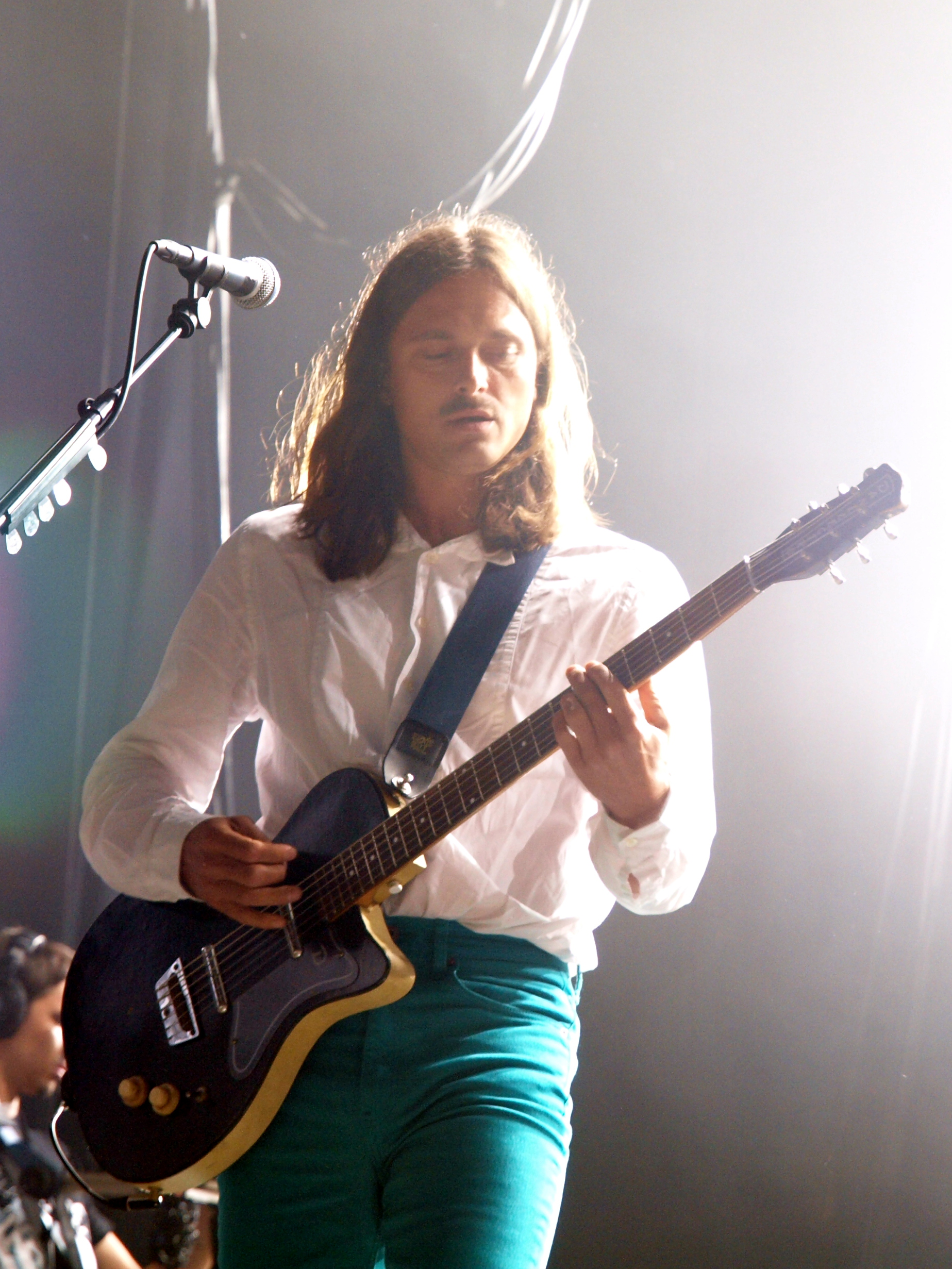 Danish band Mew at Provinssirock 2013